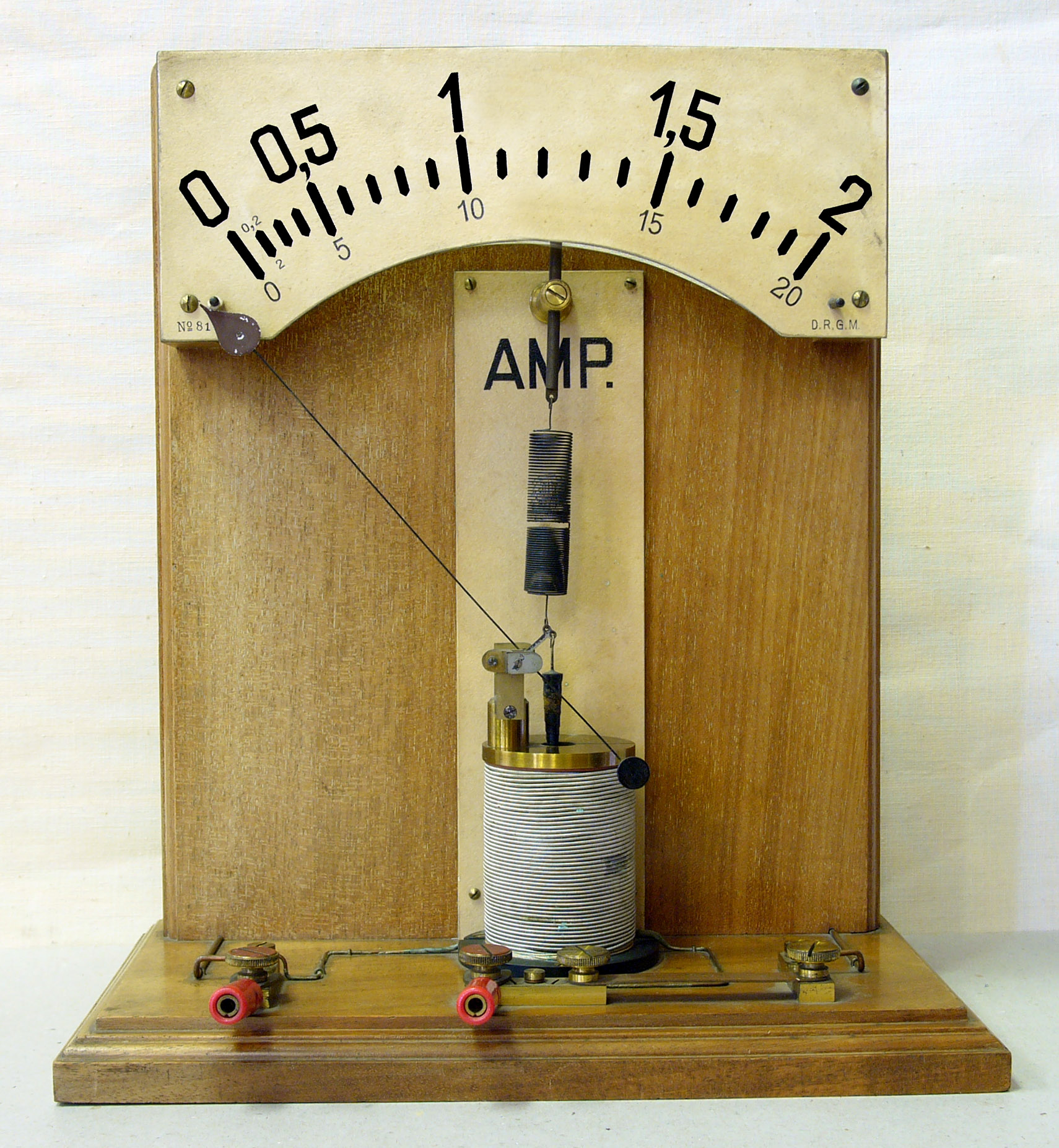 Moving-vane ammeter, used in science education in the early 20th century, on display in the Schulhistorische Sammlung (School Historical Museum), Bremerhaven, Germany.